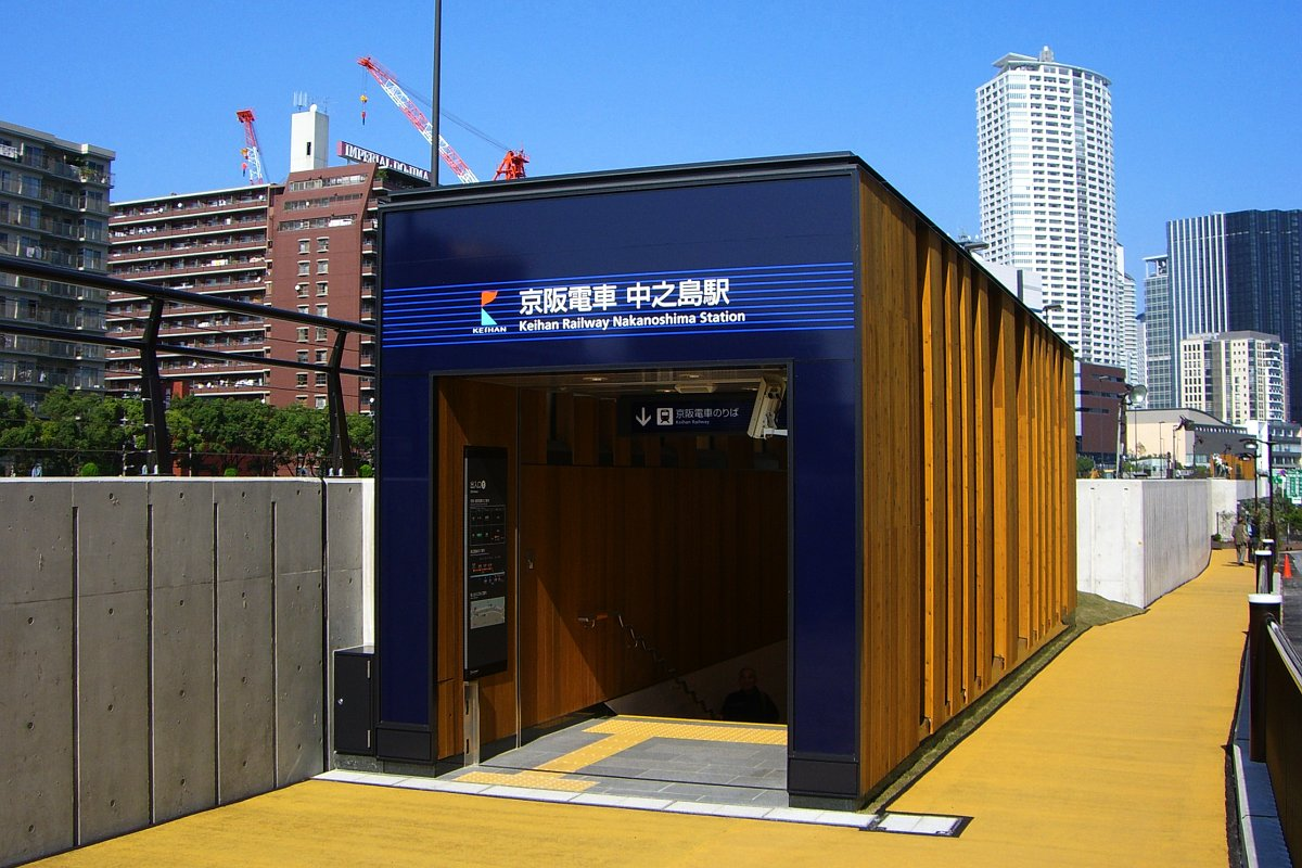 Nakanoshima Station entrance, Osaka City, Japan